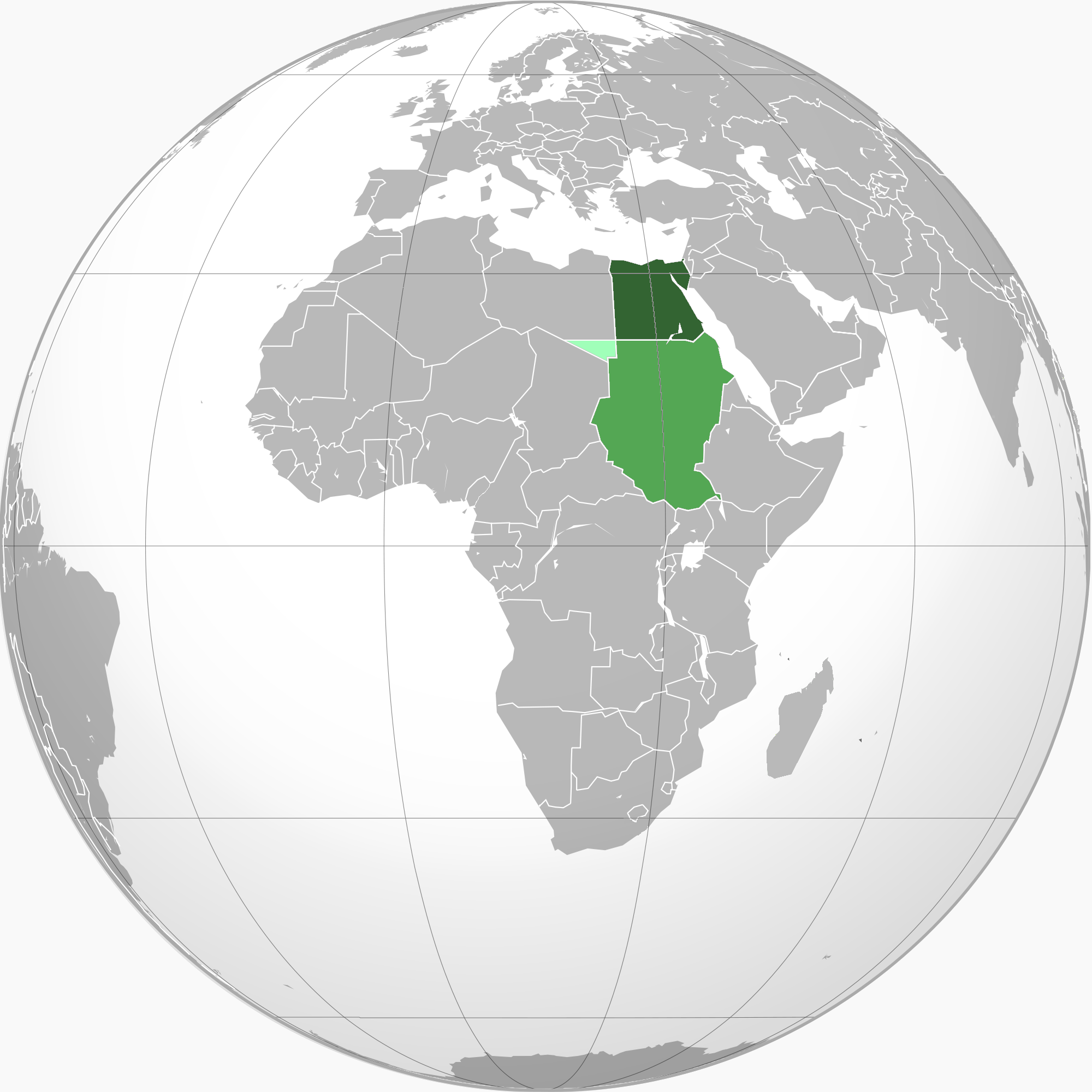 Kingdom of Egypt Anglo-Egyptian Sudan condominium Ceded from Sudan to Italian North Africa in 1919